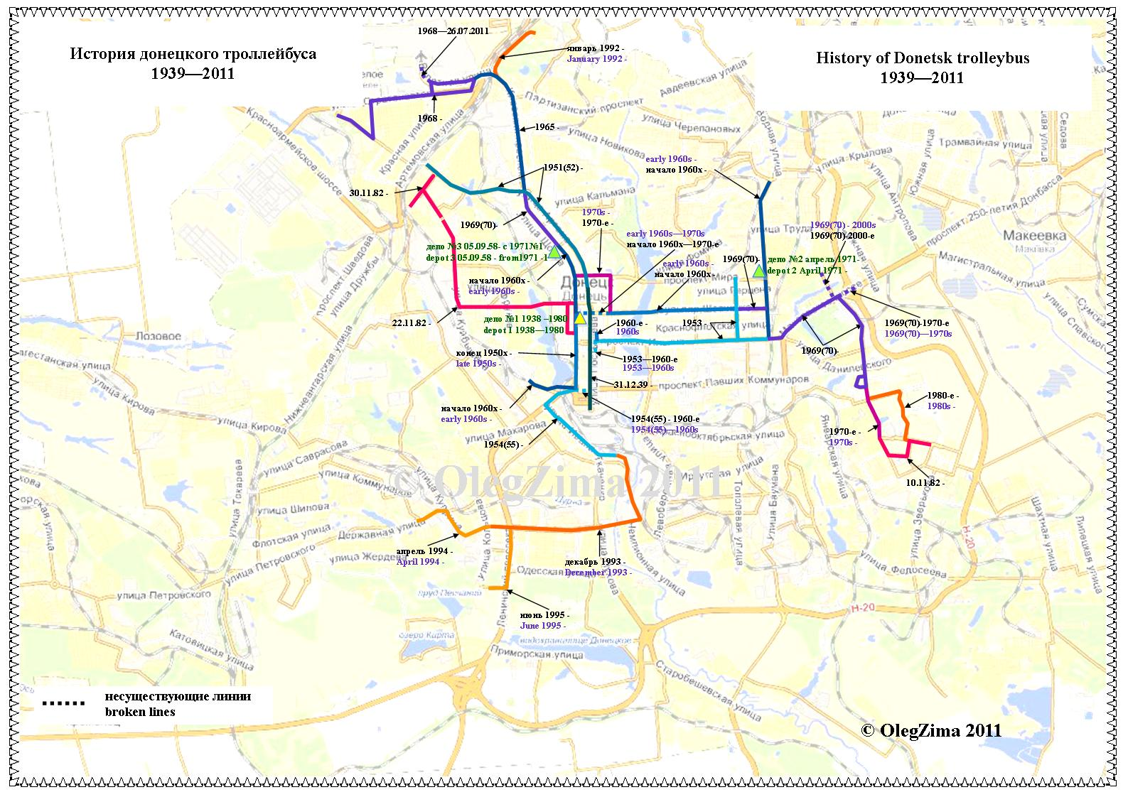 map of trolleybus history of Donetsk city (Ukraine)